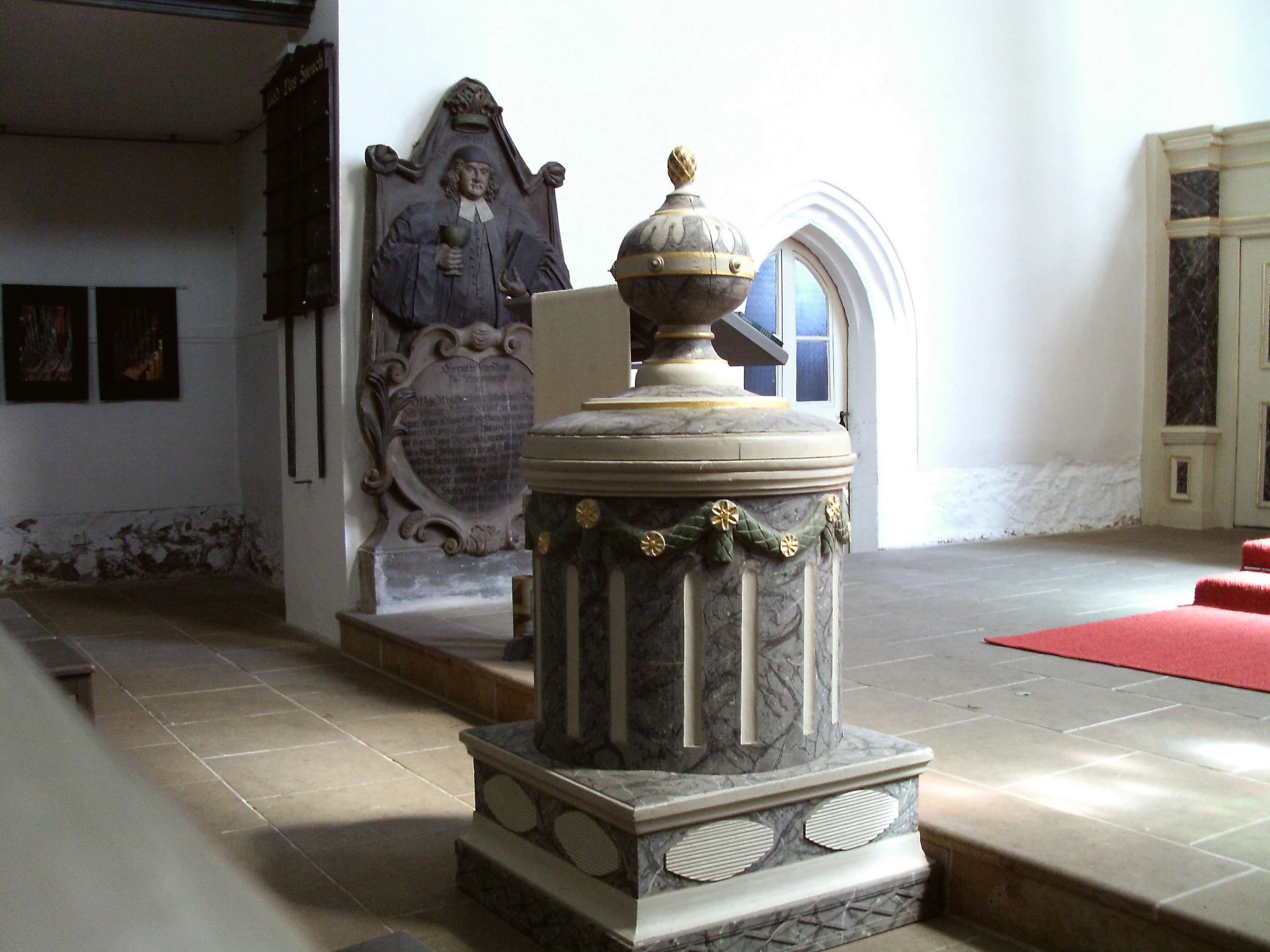 Font and epitaph in the church of the town of Naunhof (Leipzig district, Saxony)